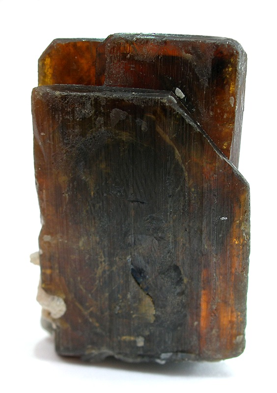 Stibiotantalite Locality: Himalaya Mine (Himalaya pegmatite; Himalaya dikes), Gem Hill, Mesa Grande District, San Diego County, California, USA (Locality at ) Size: thumbnail, 3.2 x 2.1 x 0.6 cm Stibiotantalite This perfect, equant, textbook-quality crystal is a very significant example of this rare species for San Diego, of which few better exist. I recall the handwringing it caused when Chuck traded this from Irv Brown in the mid-1990s. By any standard, this is a beautiful example of the species from any US locale. Ex. Chuck Houser Collection.